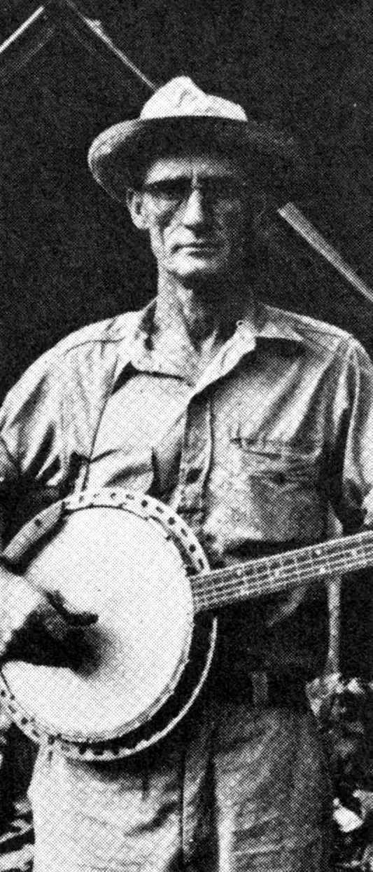 Roscoe Holcomb (no copyright notice could be found anywhere on the original source, thus public domain is assumed)